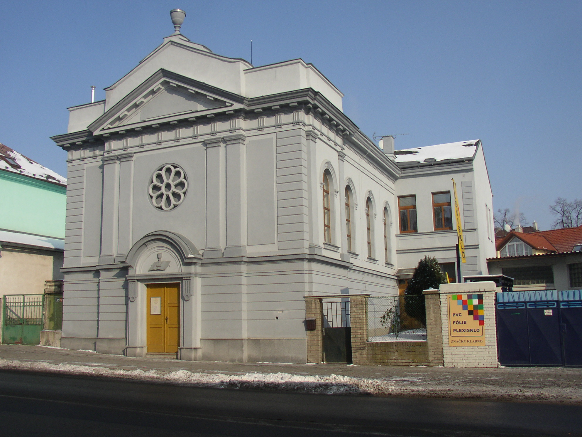 Church of Evangelical Church of Czech Brethren in Kladno, Kladno District, Czech Republic.